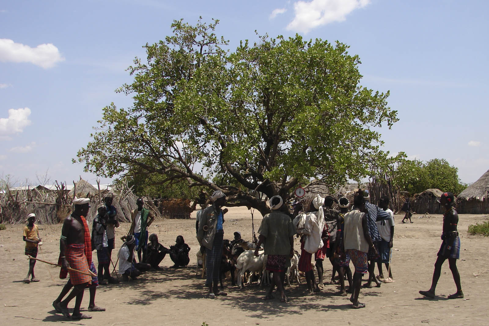 Arbore people : Goat weighing at the market(Ethiopia)